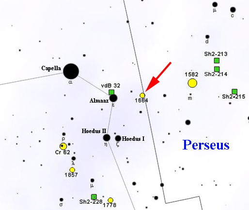 Map of NGC 1664